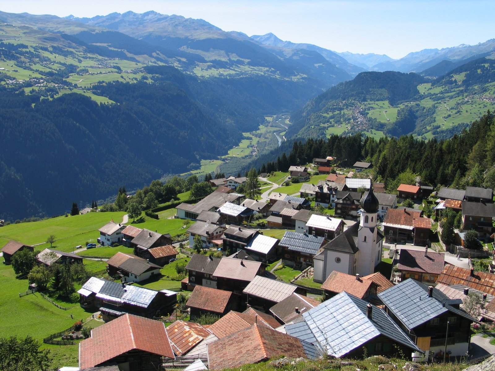 Siat is near Ilanz in the Rhine Valley. This picture was taken above the village and you can see all the way down from 1300 meters above sea level to about 400 meters above sea level, and you see several kilometers into the Rhine Valley. A spectacular view in summer on clear days.